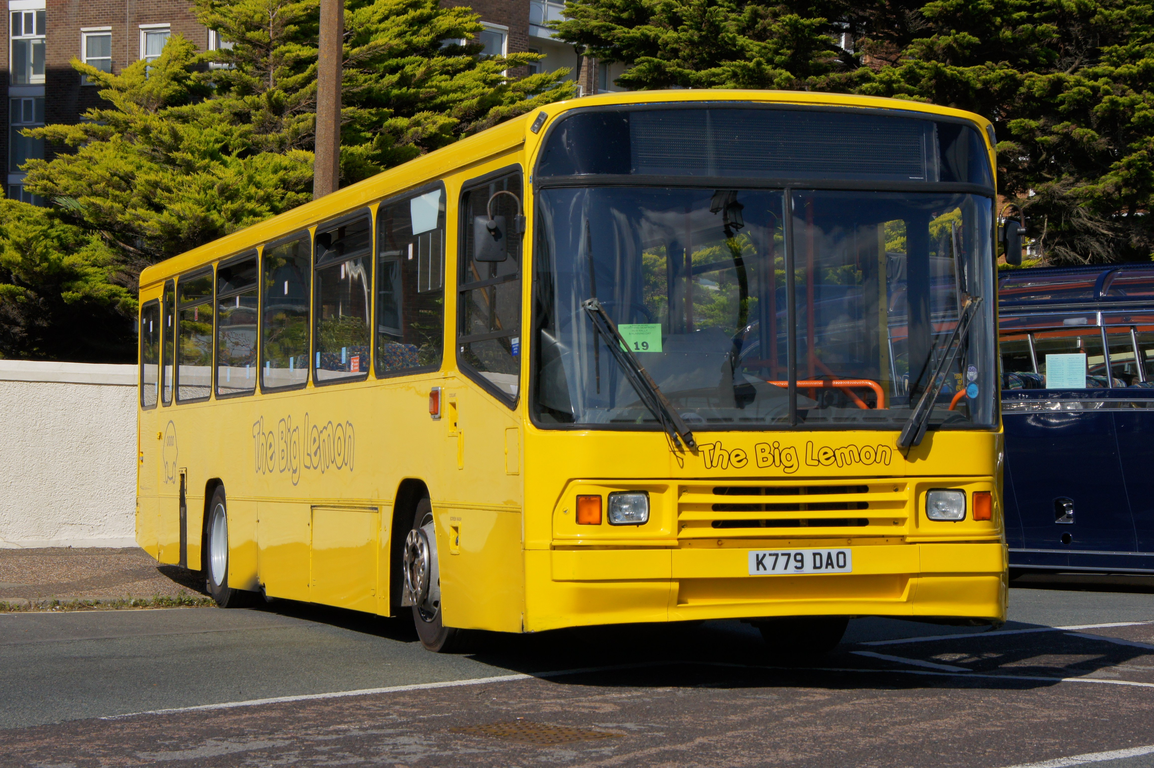 The Big Lemon (K779 DAO), a Volvo B10M/Alexansder PS, seen at Worthing bus rally 2012.